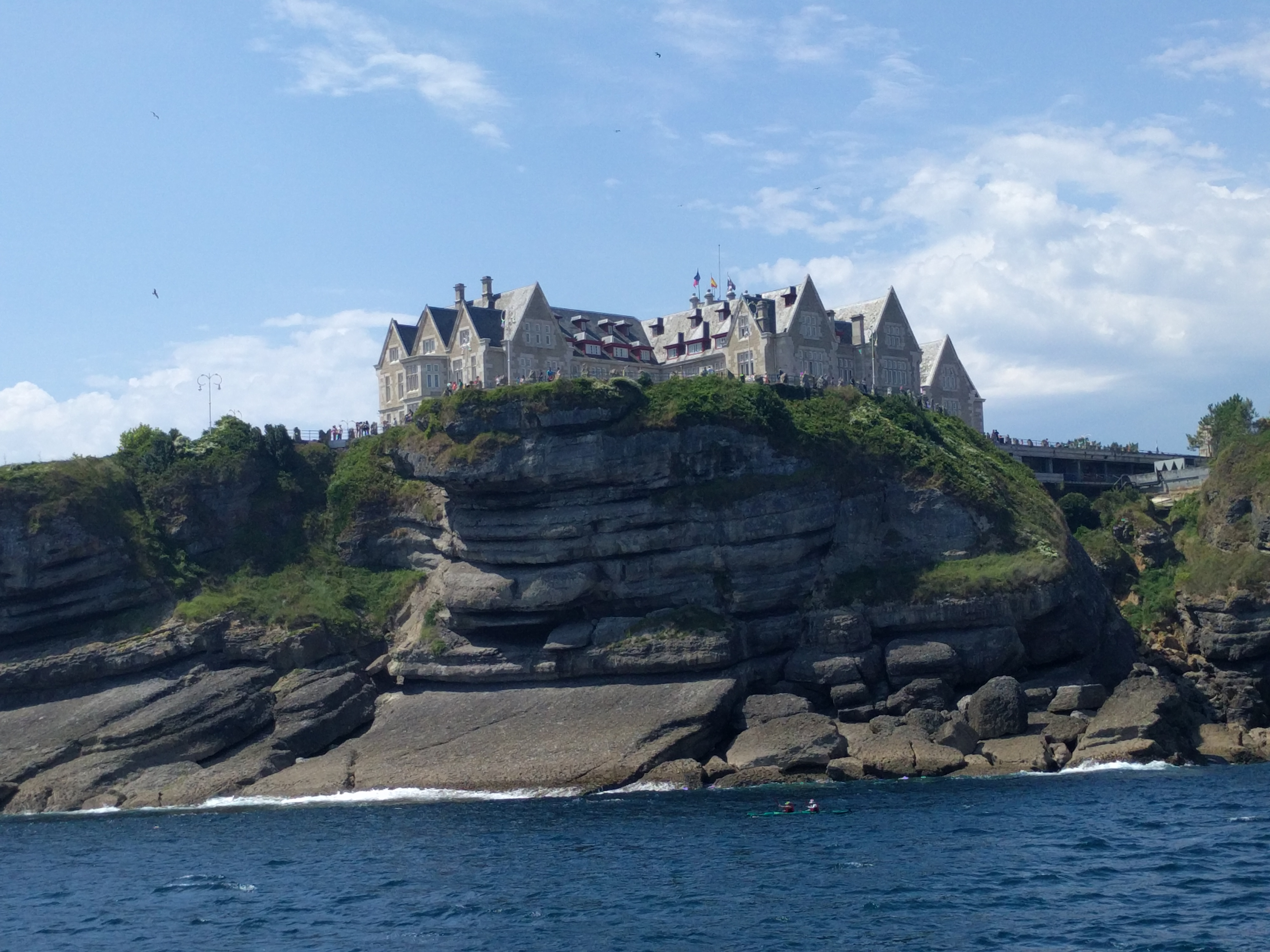 Palacio de la Magdalena, Santander, Spain